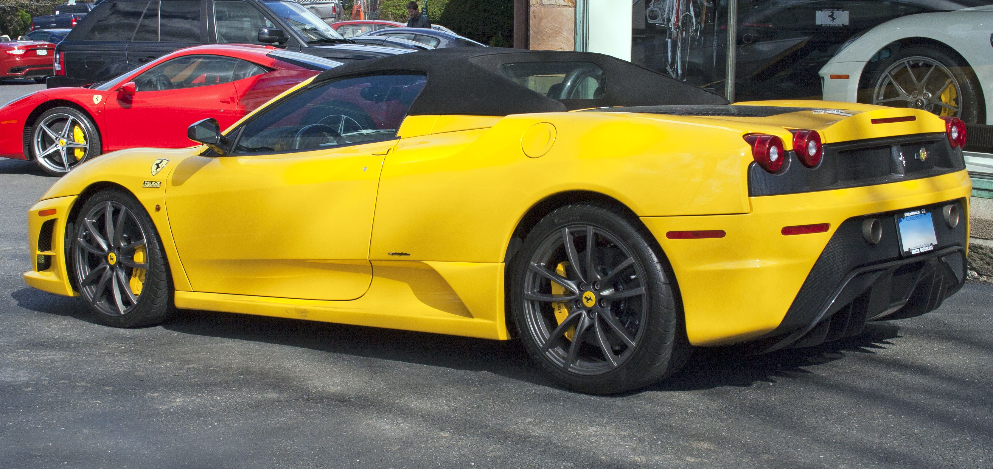 2009 Ferrari F430 Spider 16M, a series of 499 released to celebrate Ferrari's sixteenth Formula 1 World Championship.